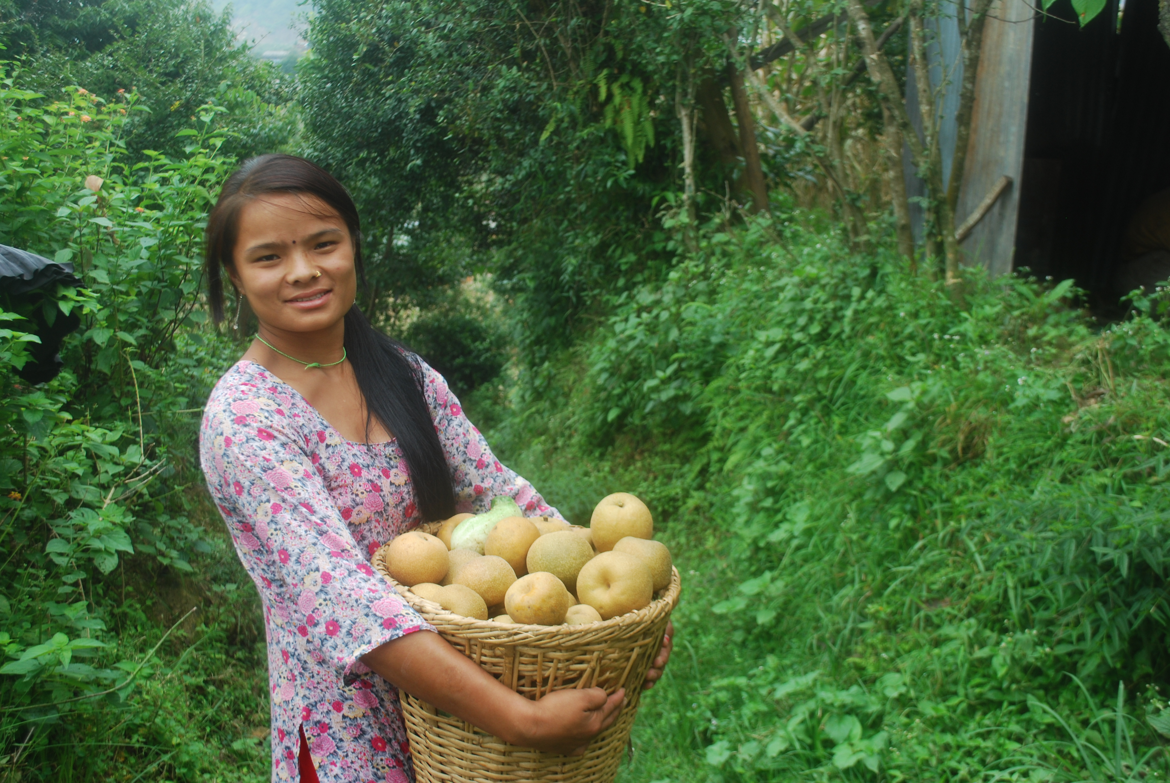 A girl carrying a basket of Pyrus pyrifolia in Chhaimale VDC of Lalitpur district.